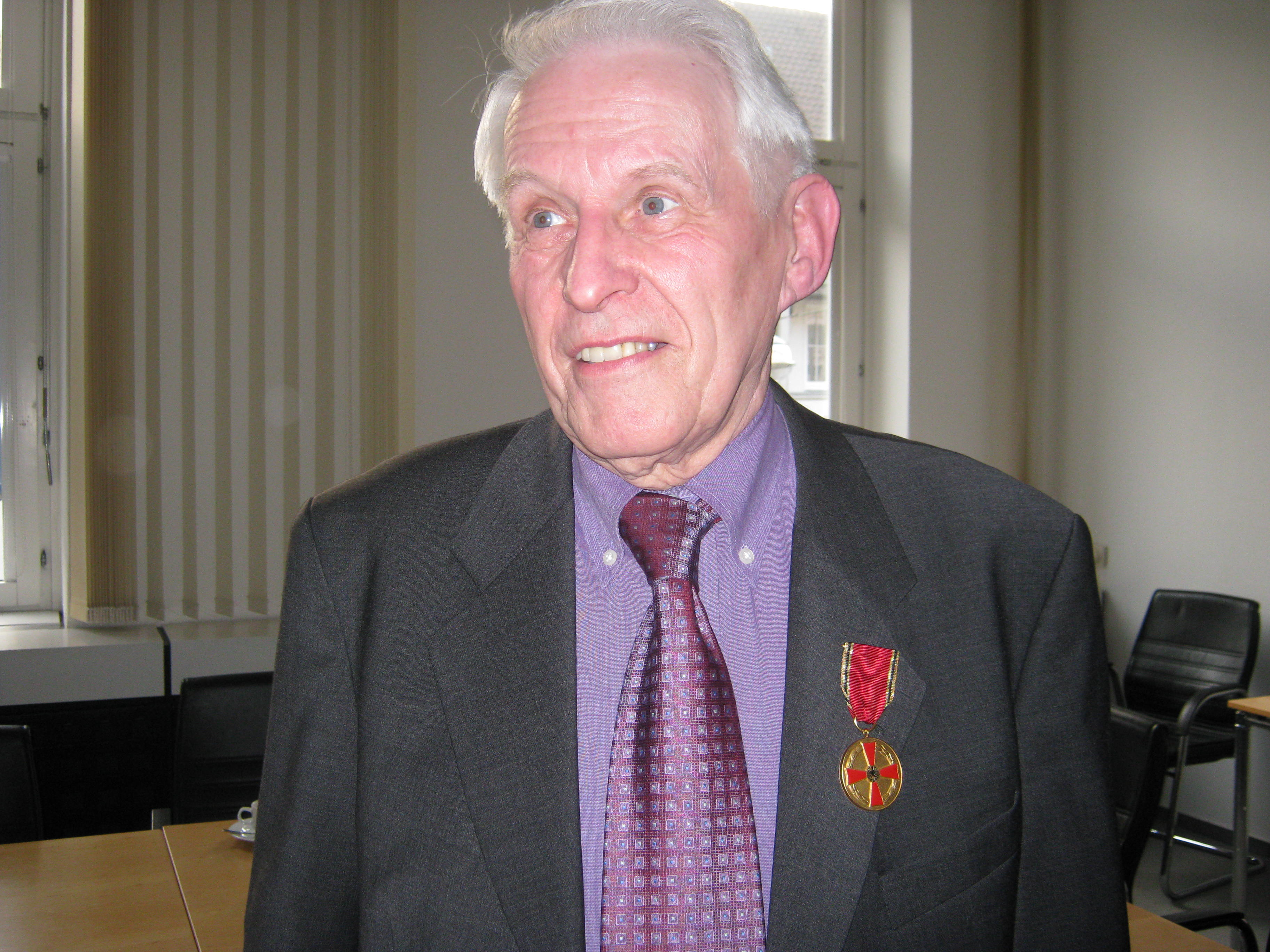 Jürgen Apel